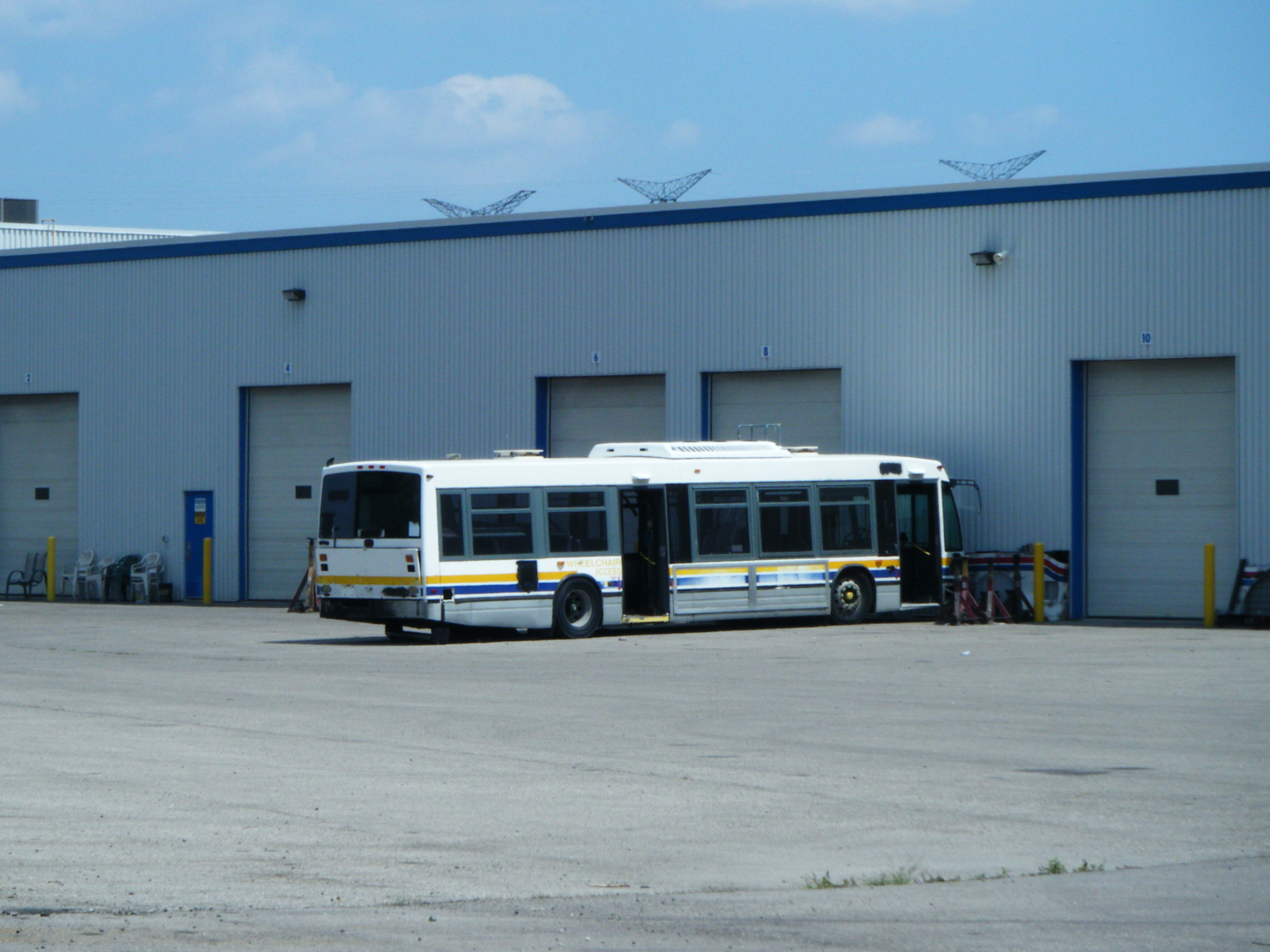 an unknown HSR NovaBus LFS is seen at MTB